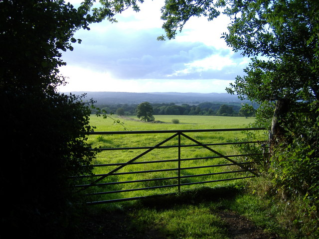 A glimpse of the East Devon countryside